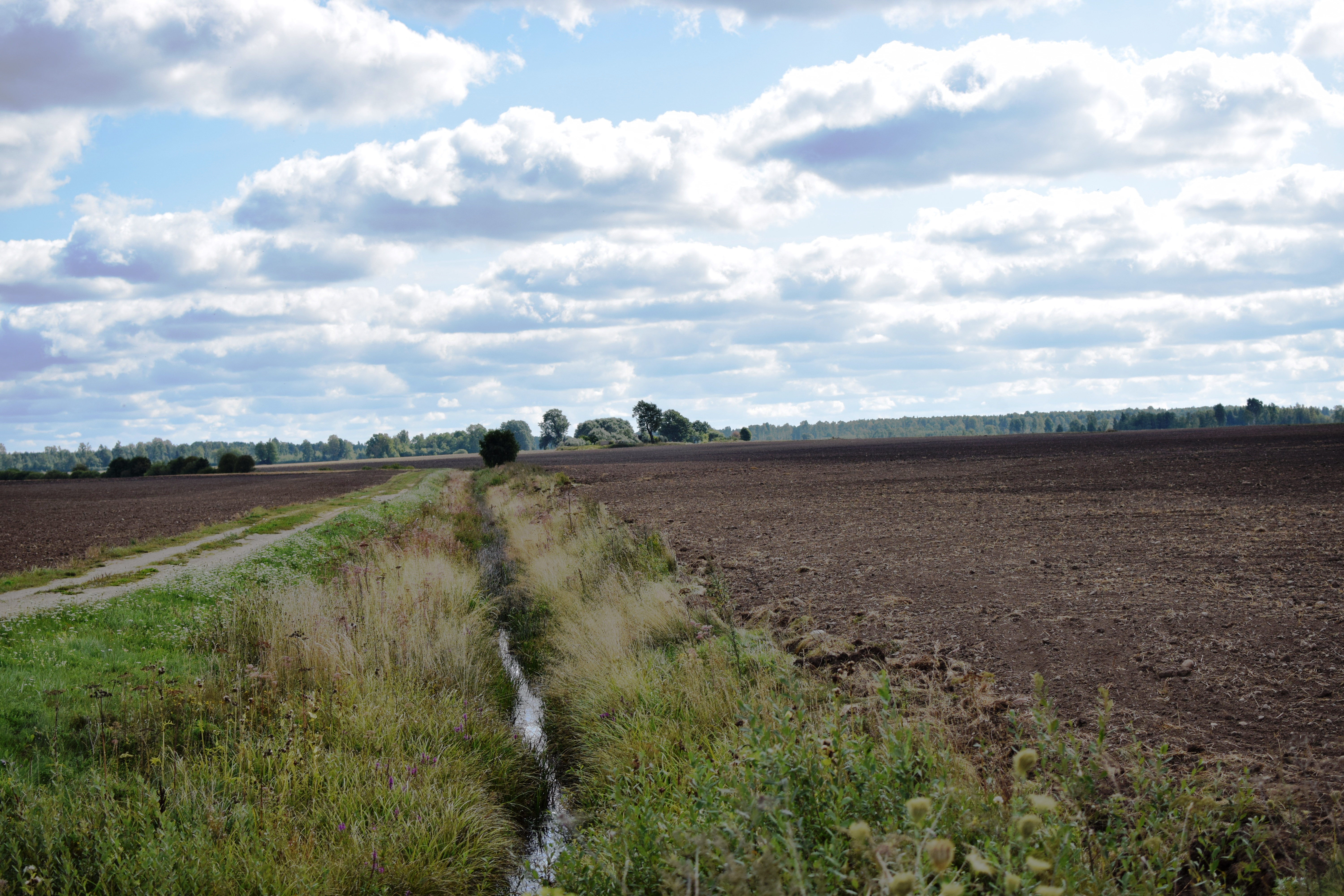 Saldus Municipality